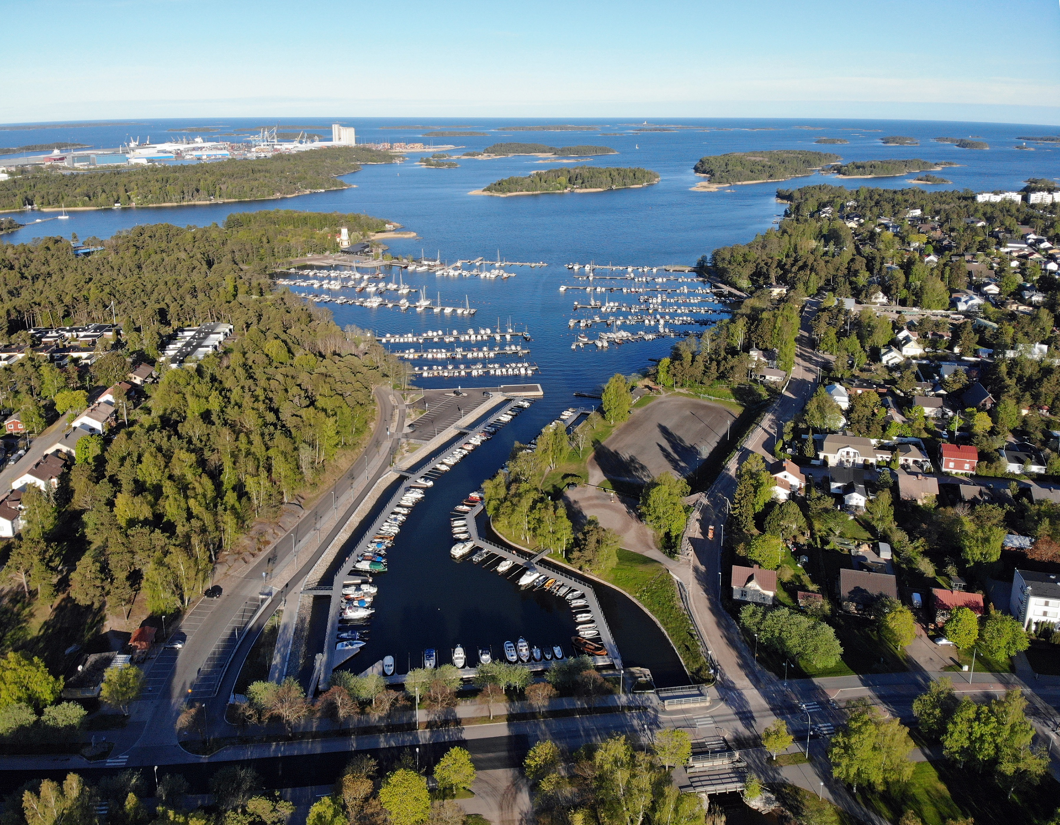 Rauma marina.